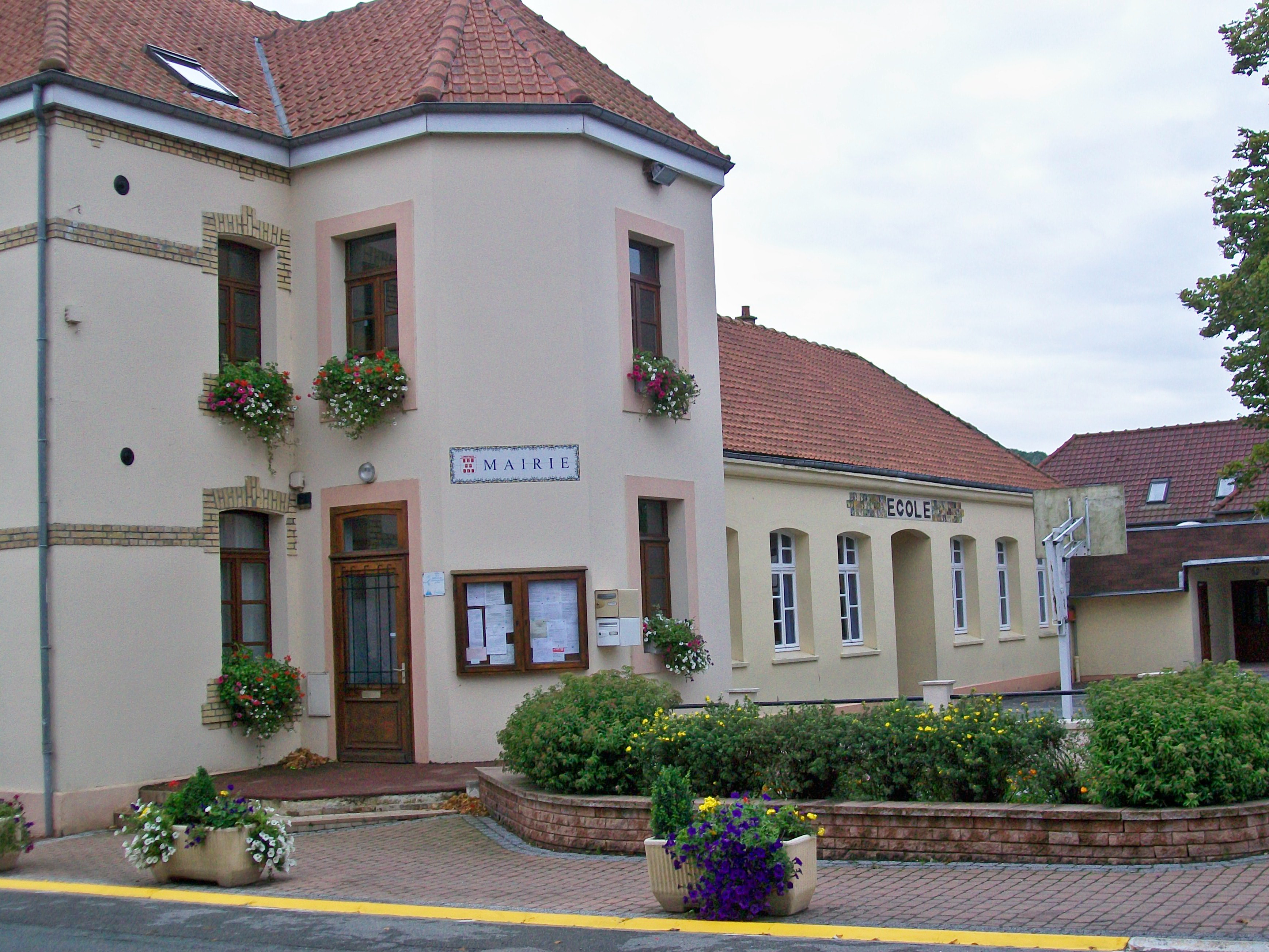 The Town Hall and School in Longfossé, Nord-Pas-de-Calais, France.